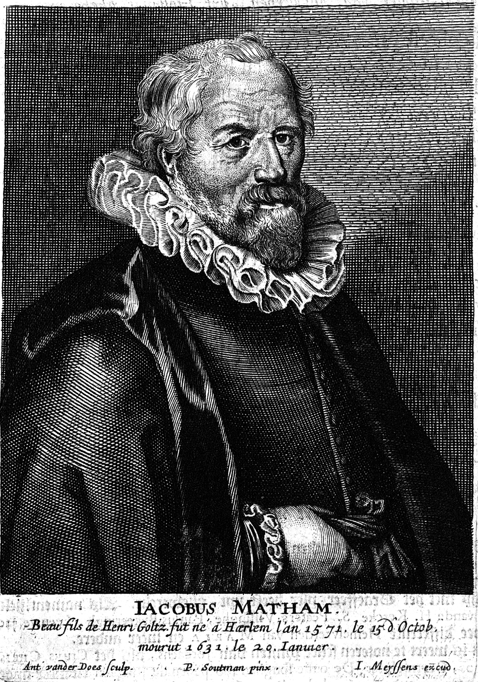 Het Gulden Cabinet, painter biographies by Cornelis de Bie for the Antwerp publisher-engraver Jan Meyssens, 1662 Jacob Matham p 475